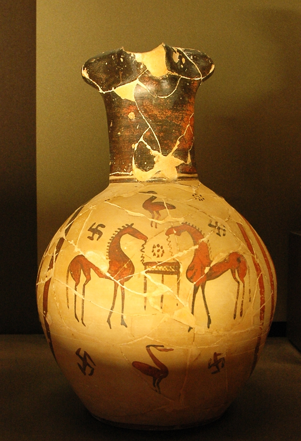 Two horses at trough. Late Geometric Attic oinochoe, ca. 725 BC. From Athens.